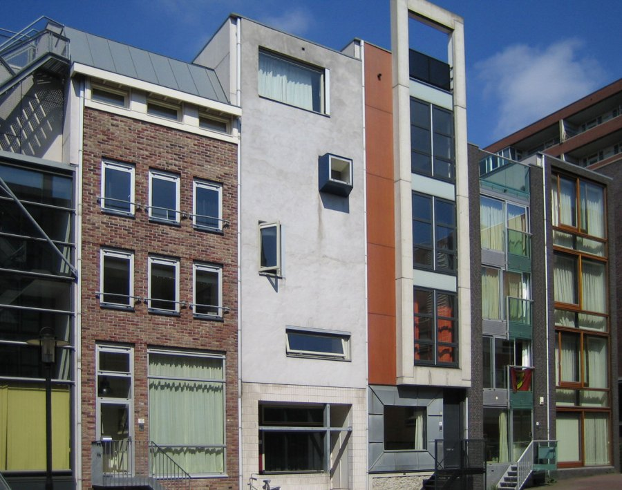 Java Island Canal Houses (Amsterdam)